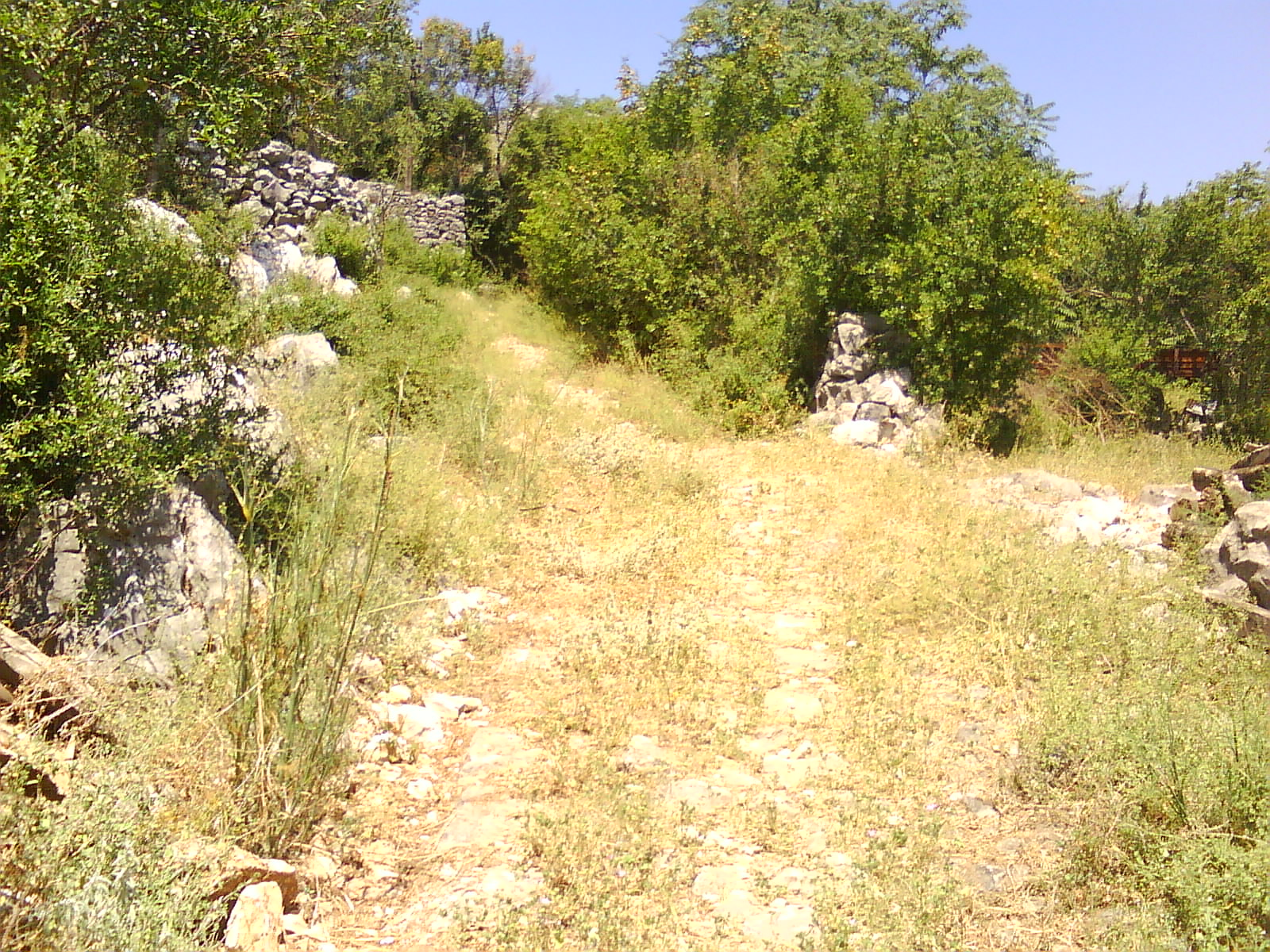 City of Ljubuški